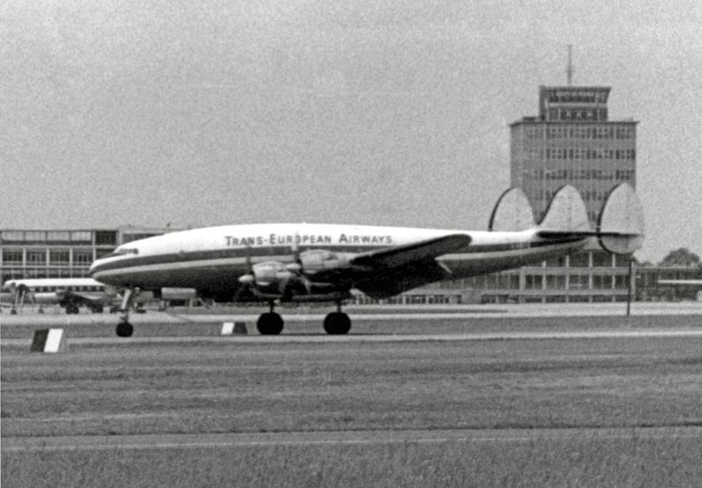 Lockheed L-049 Constellatrion of Trans European Airways at Manchester Airport